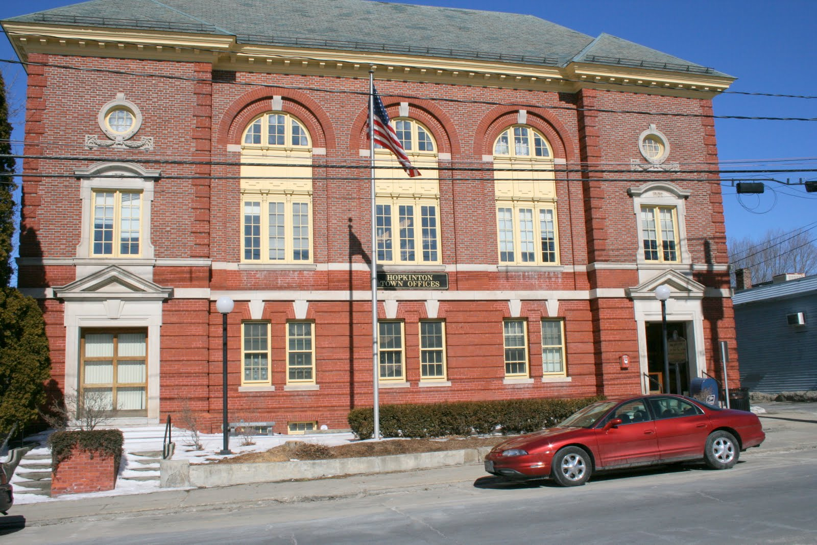 Hopkinton Town Hall